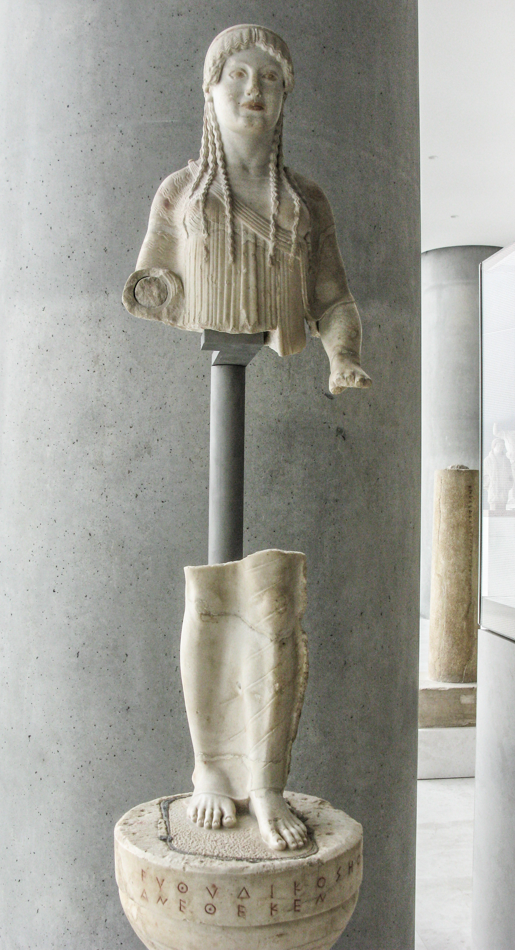 The Euthydikos Kore. After 480 BC. Parian marble (statue). Pentelic marble (base). The inscription states the Euthydikos, son of Thaliarchos, dedicated (the statue).